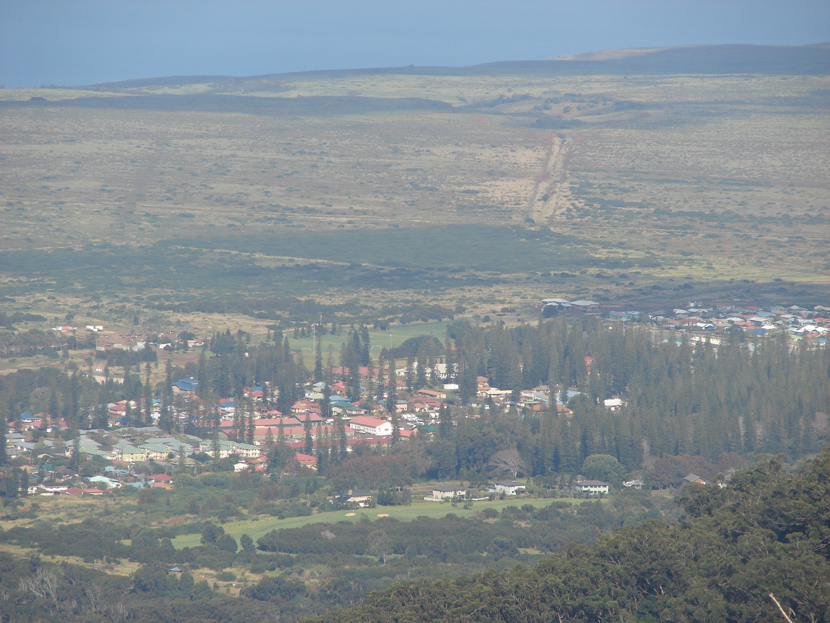 Lanai City. Location: Lanai, Munro Trail